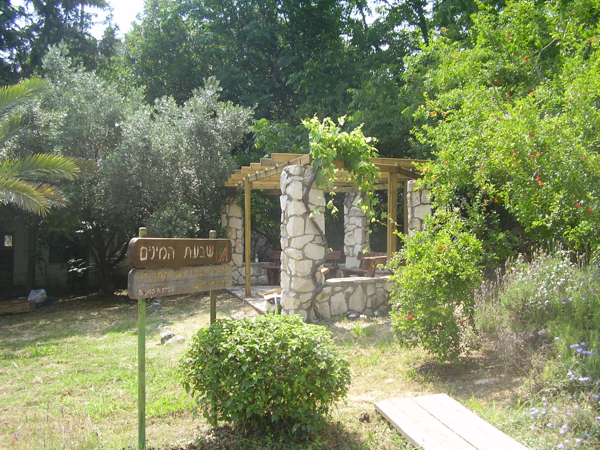 Oranim College Botanic Garden